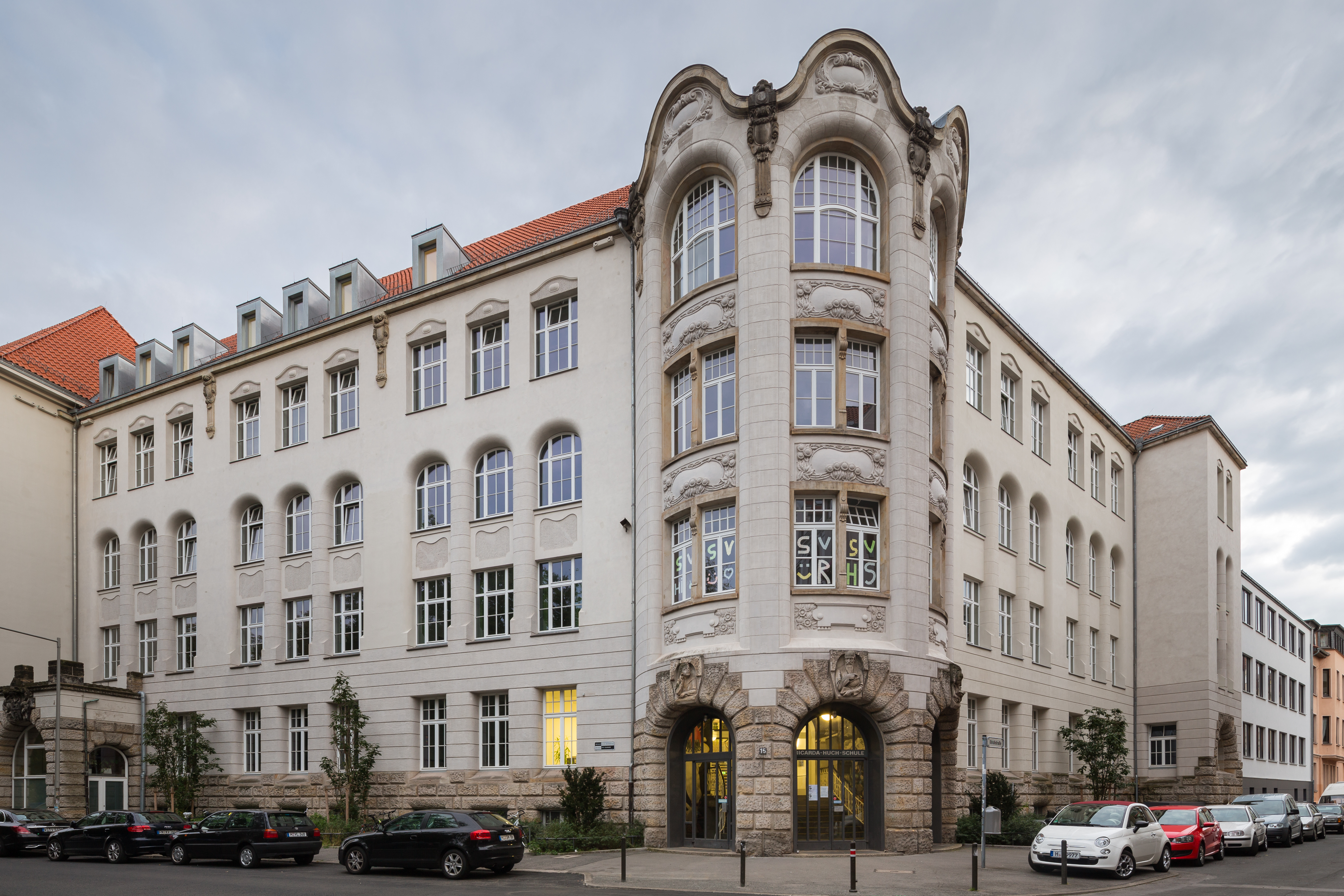 Ricarda-Huch-Schule school located at Bonifatiusplatz square and Ulrichstrasse in List quarter of Hannover, Germany.